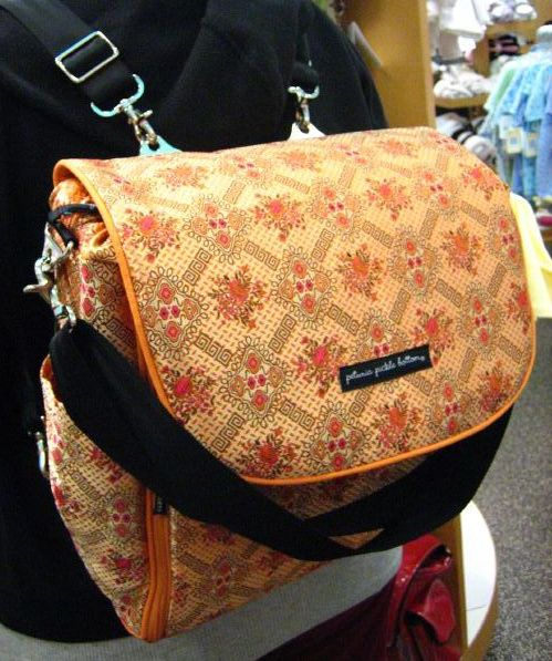 A woman wearing a "Petunia Pickle Bottom" bag.